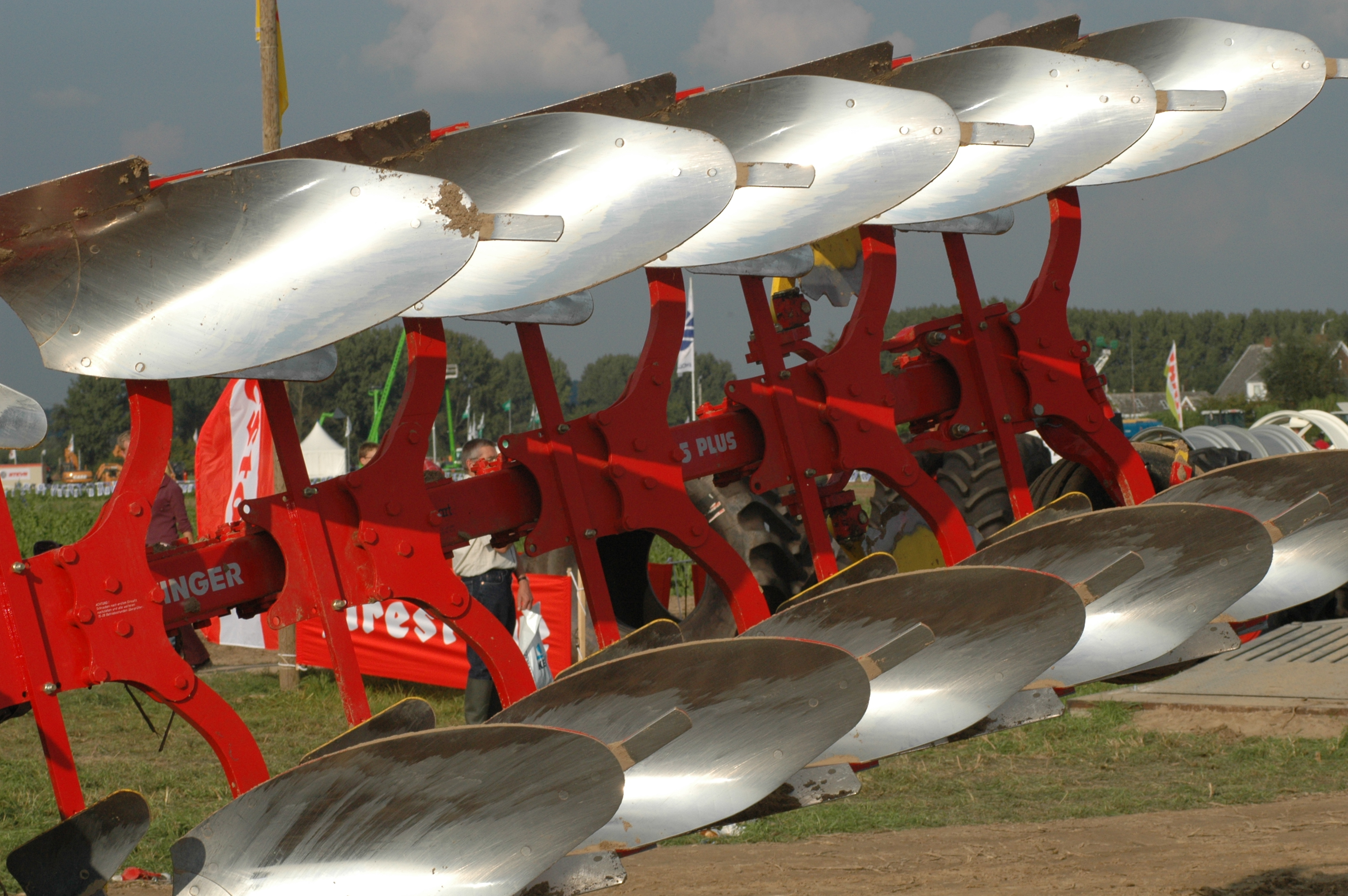 Pöttinger plough at Werktuigendagen 2005